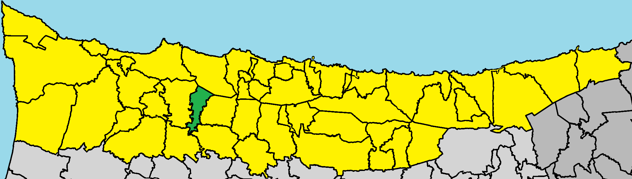 Agridaki in Kyrenia District (de jure).